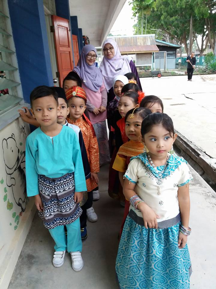 prasekolah